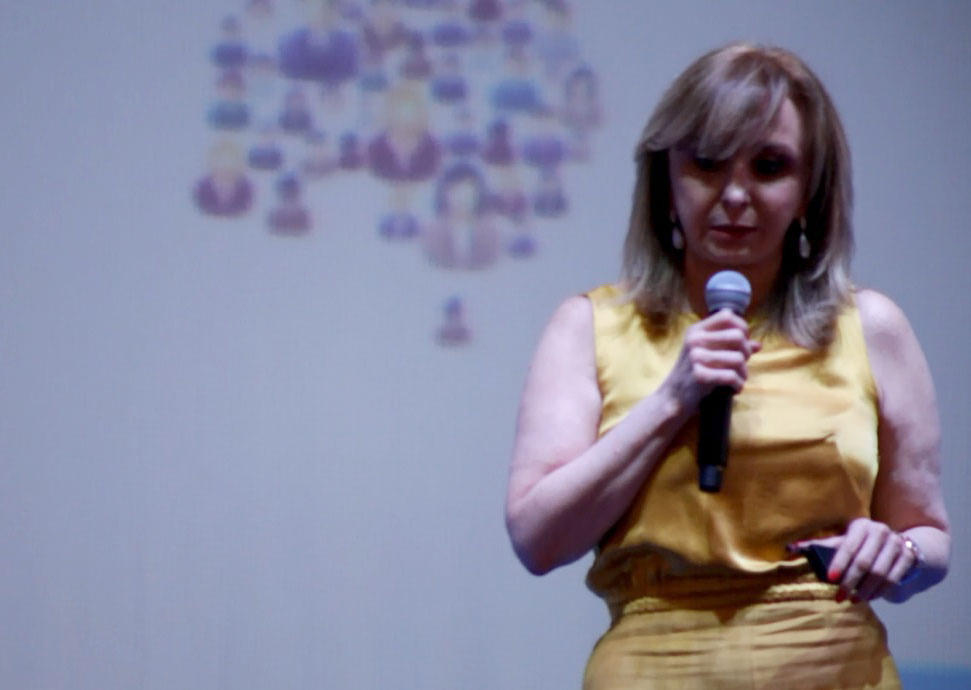 Depicted person: Blanca Treviño – CEO of Softtek